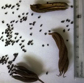 Picture showing dried and ruptured fruits of H.isora (on cm scale)